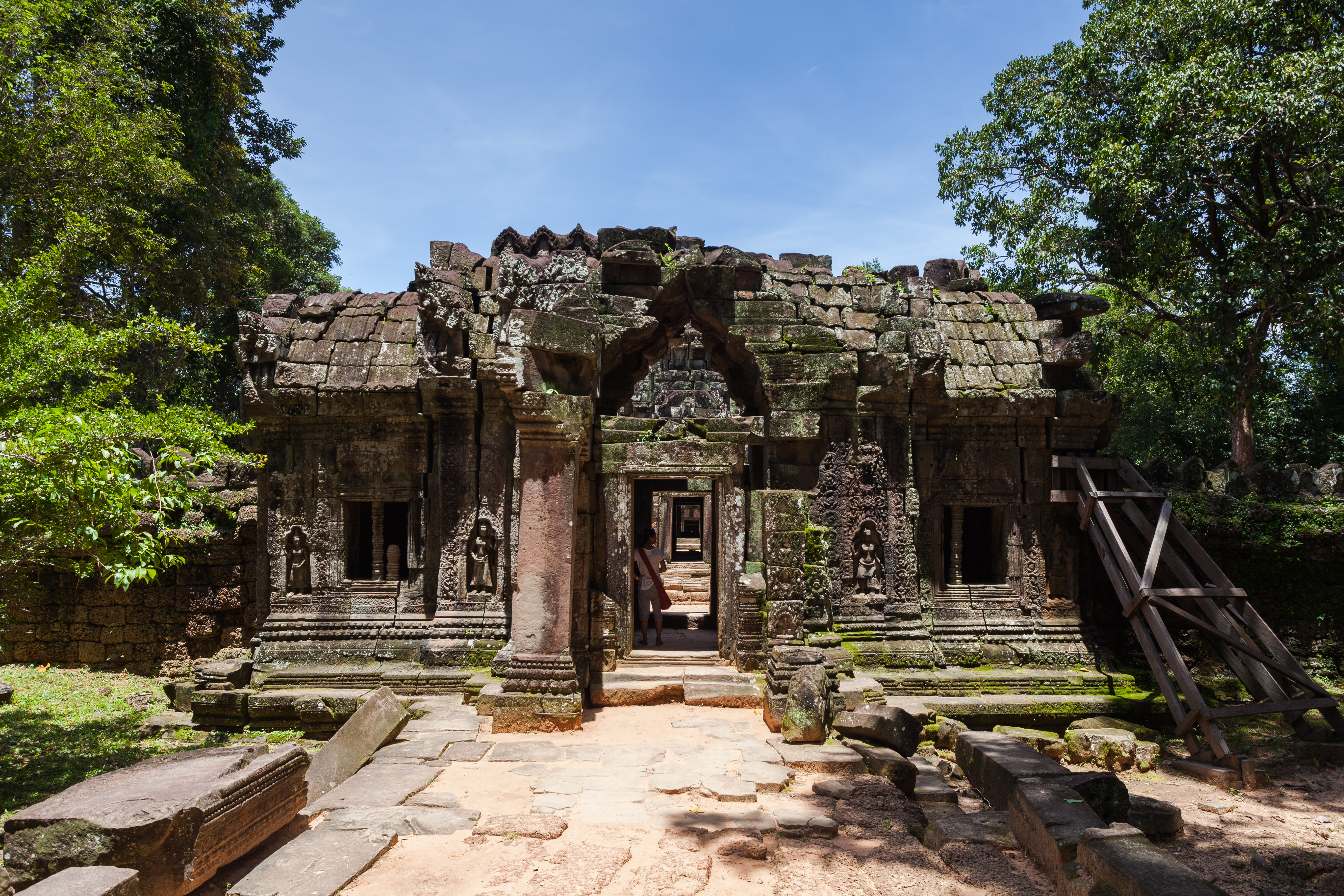 Ta Som, Angkor, Cambodia